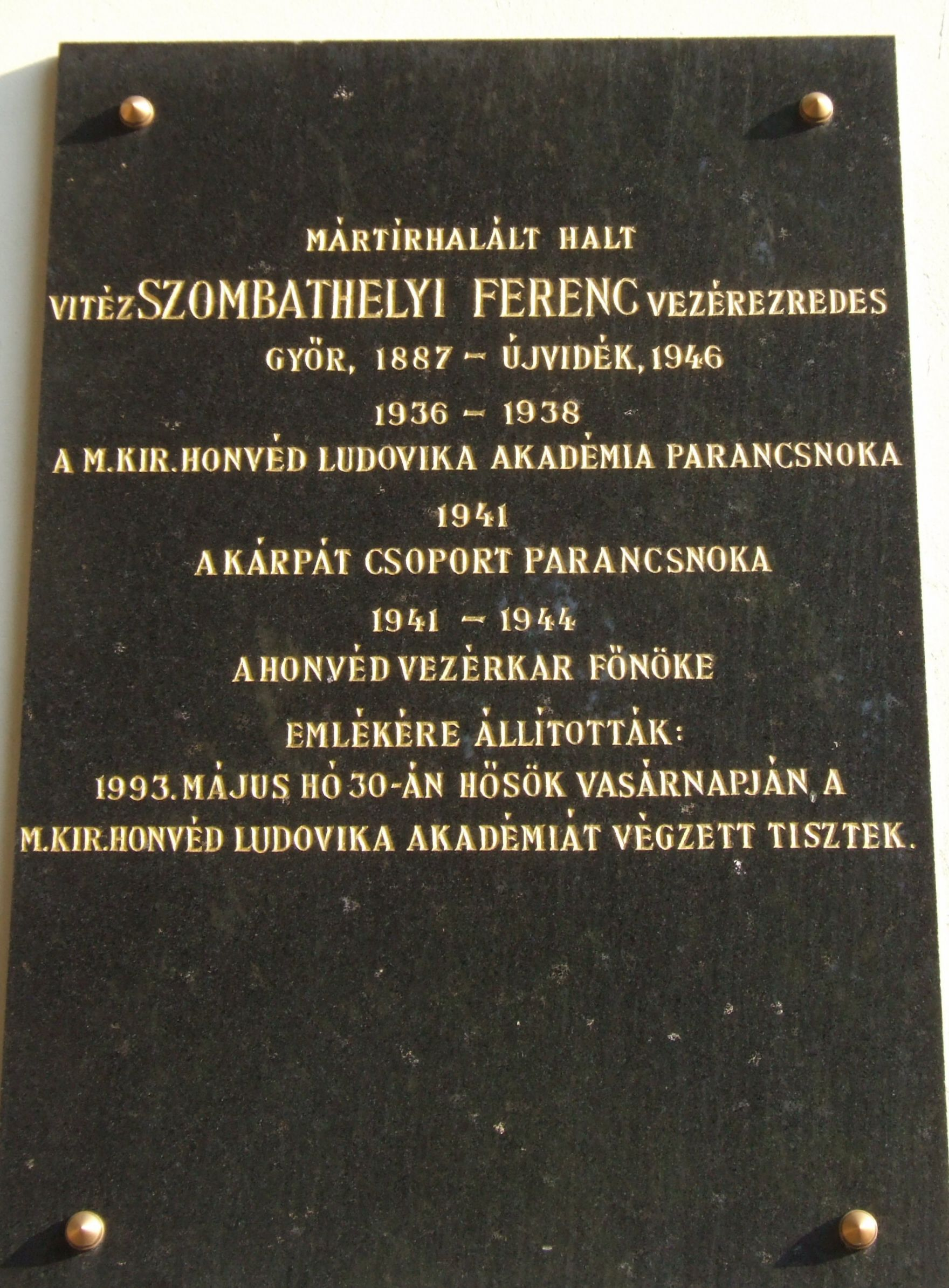 Ferenc Szombathelyi commemorative plaque in Budapest District I, Tóth Árpád Alley No 40 (Museum of Military History)